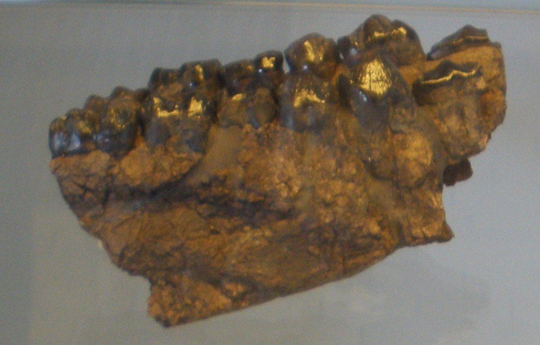 fossil Conohyus